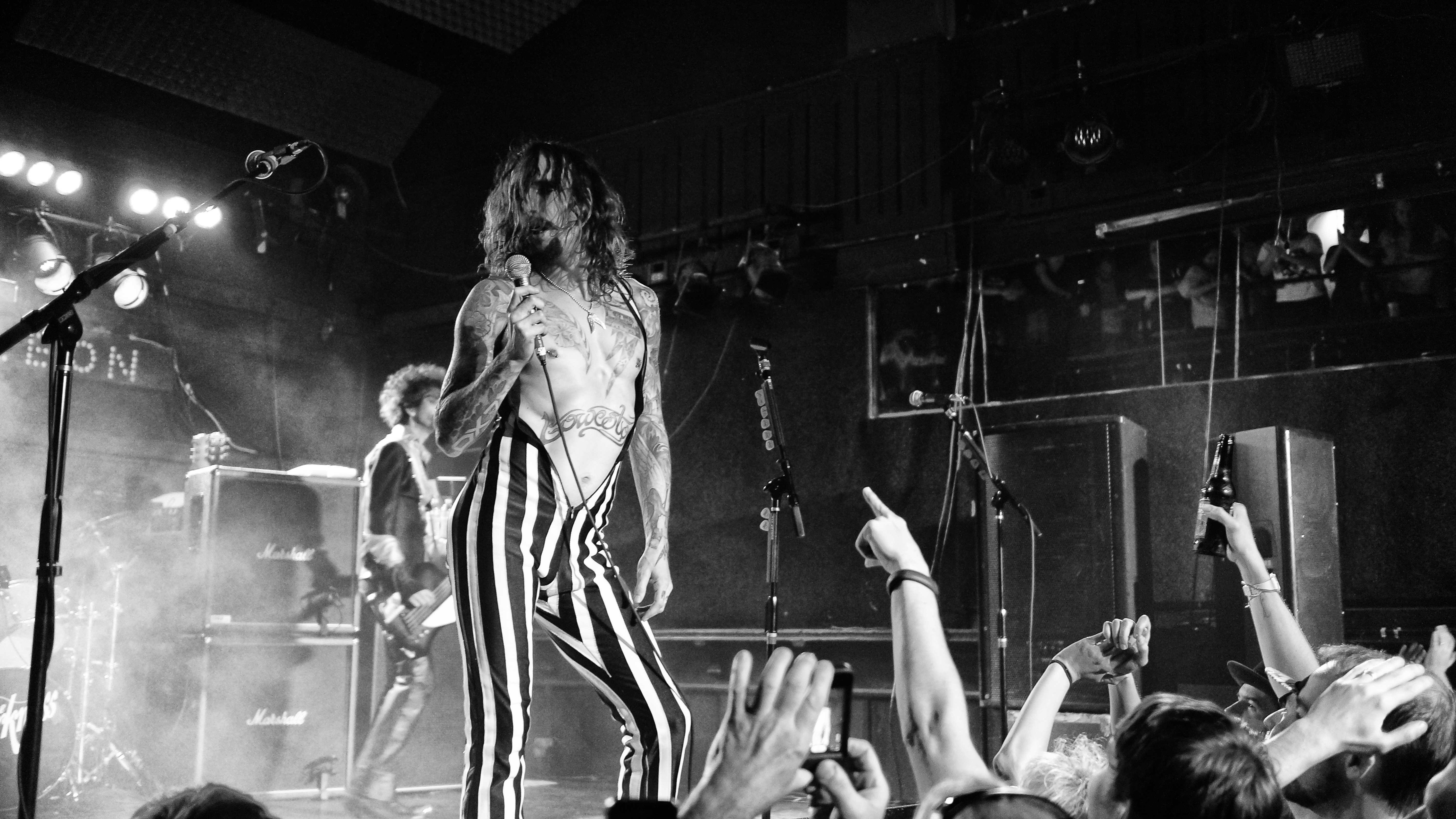 Justin Hawkins live with The Darkness May 14th 2013 at The Chameleon Club, Lancaster PA.